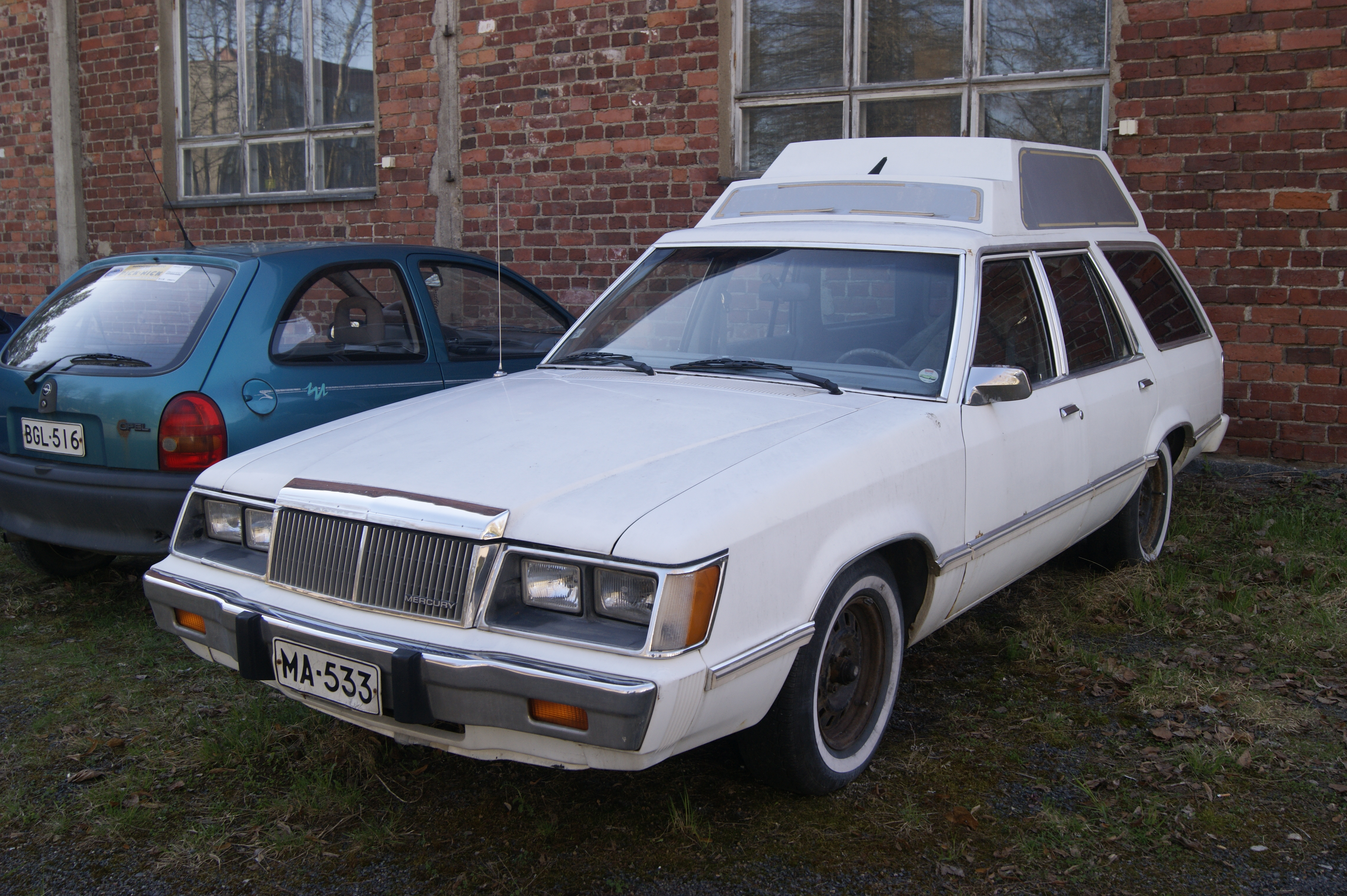 1984 Mercury Marquis in Forssa, Finland. Converted into a van.